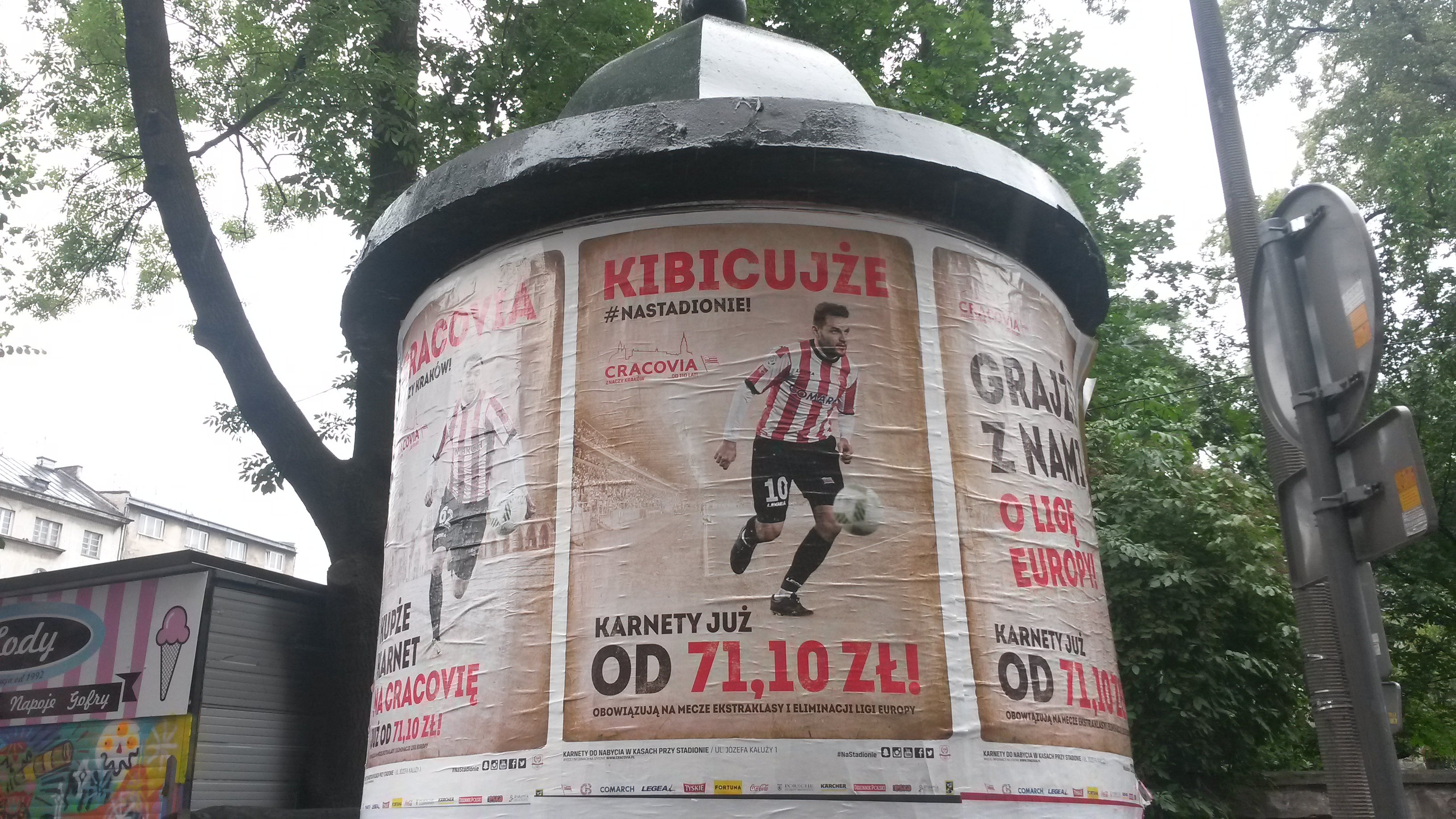 Poster of Cracovia football club with characteristic for Krakow city dialect expresion with -że ending.